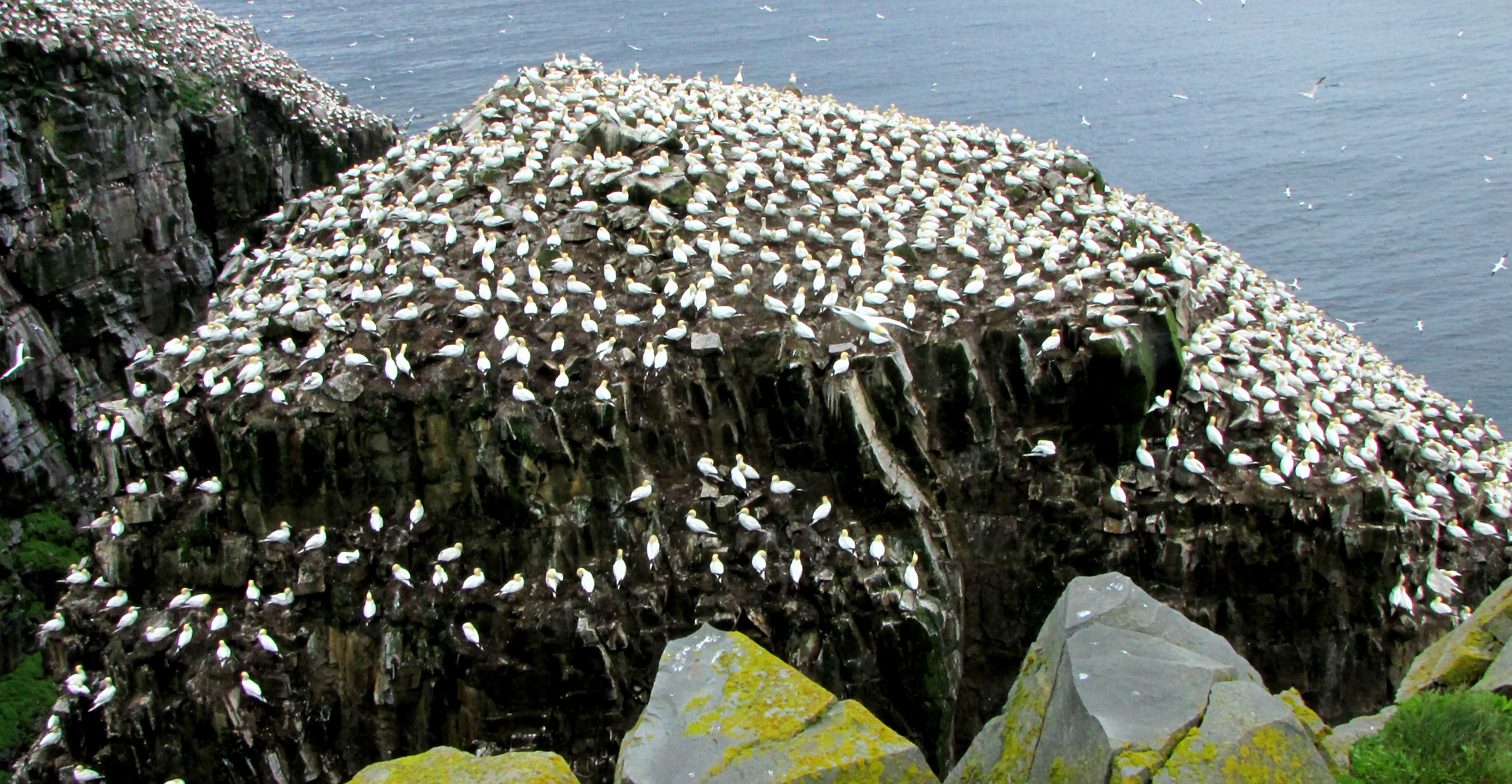 Northern Gannet (Morus bassanus) colony, Cape St. Mary's, Newfoundland and Labrador, Canada